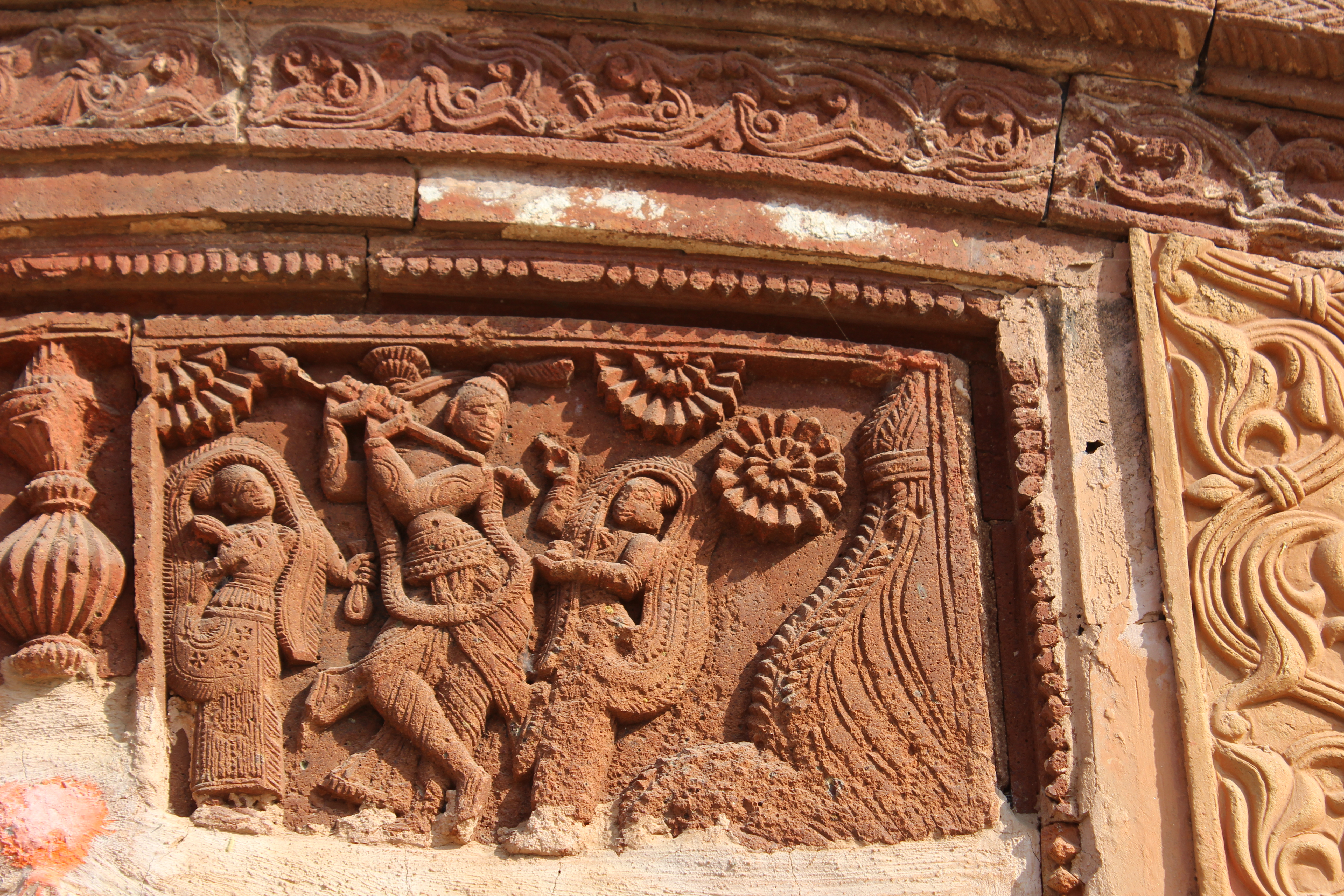 Gangpur Rameswar Shiva temple complex.